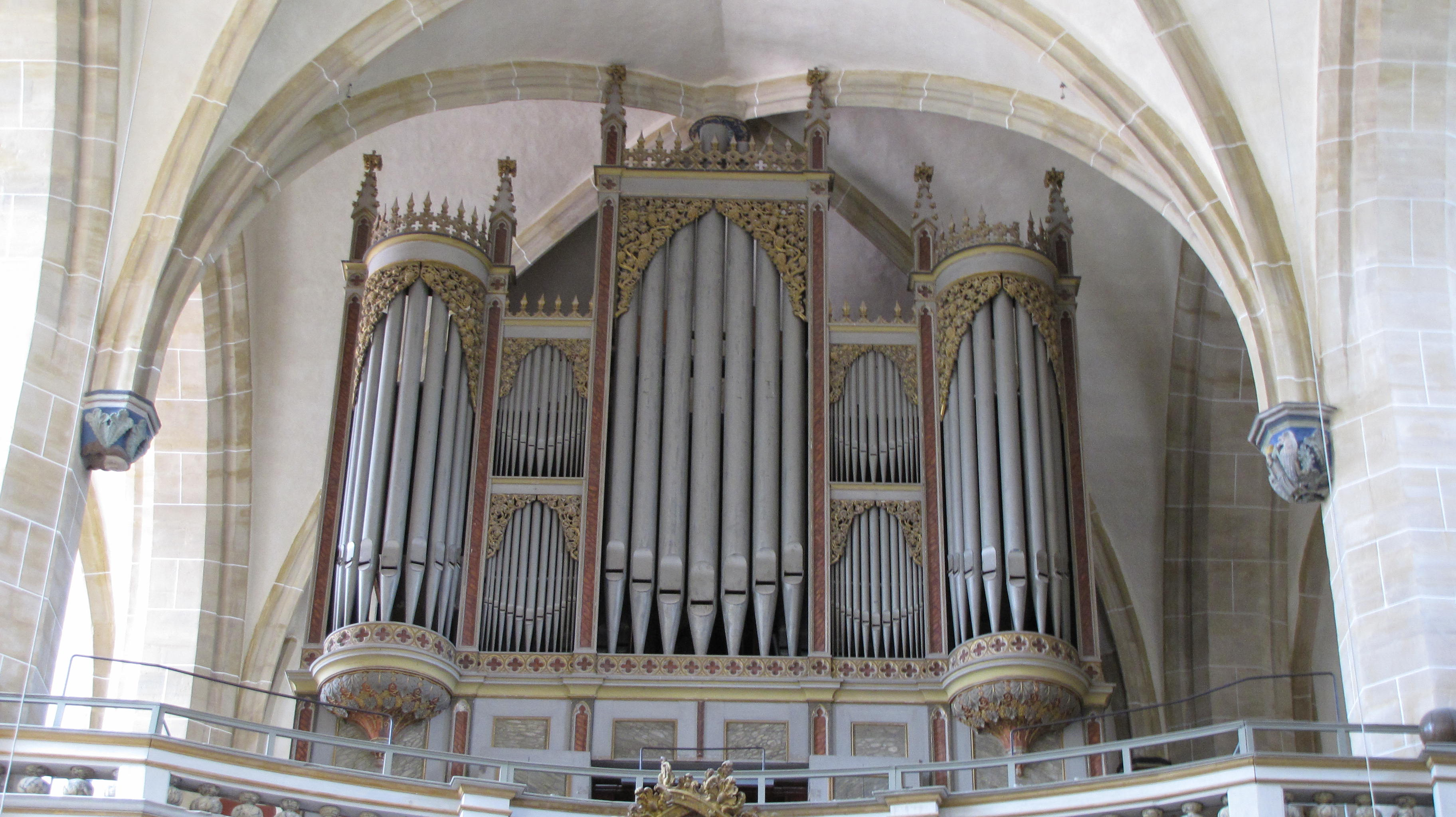 Interior of Dom zu Halle: organ